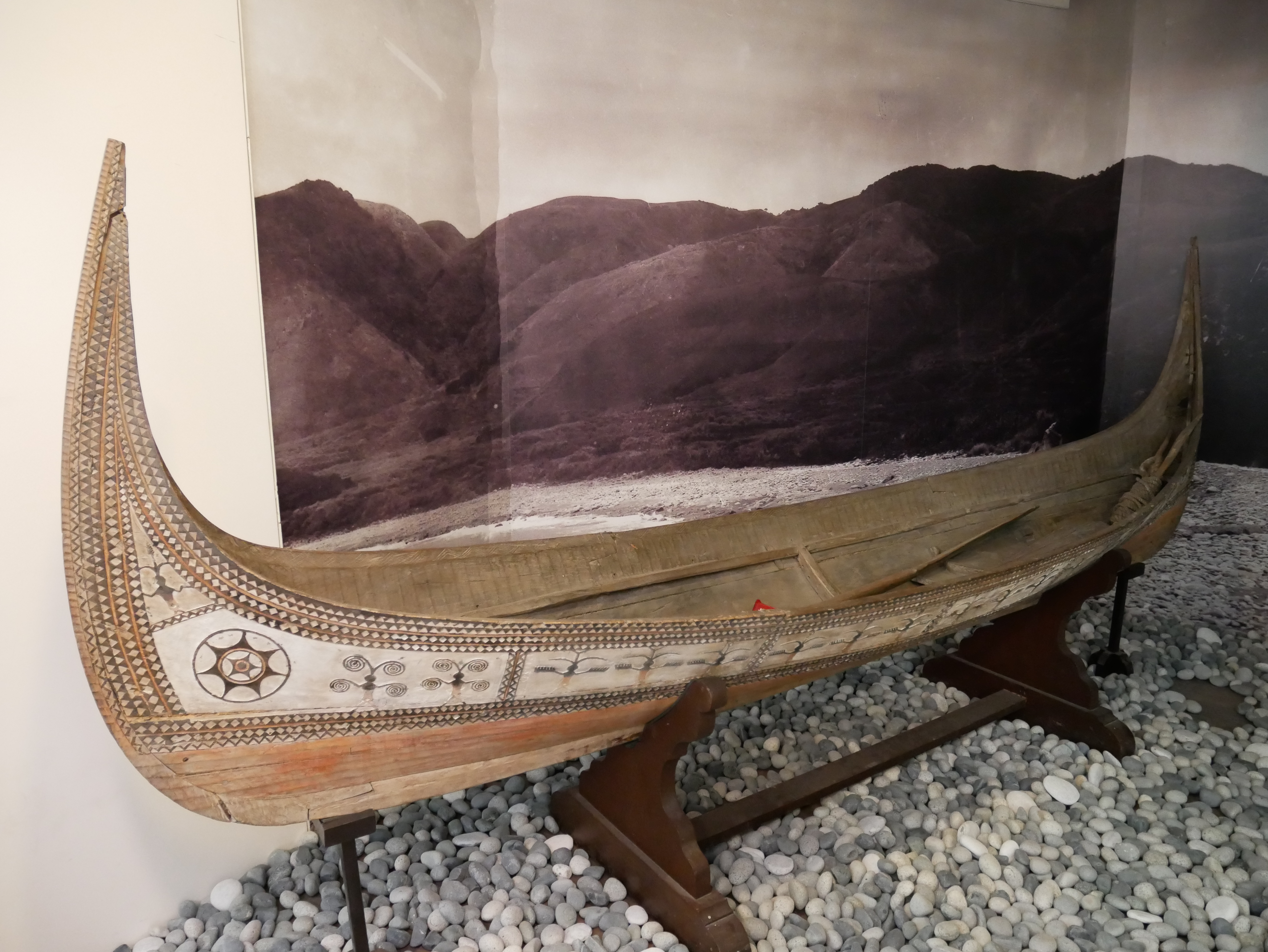 雅美族拼板舟（昭和四年（1929年）4月入藏臺北帝國大學），臺北市大安區學府次分區學府里